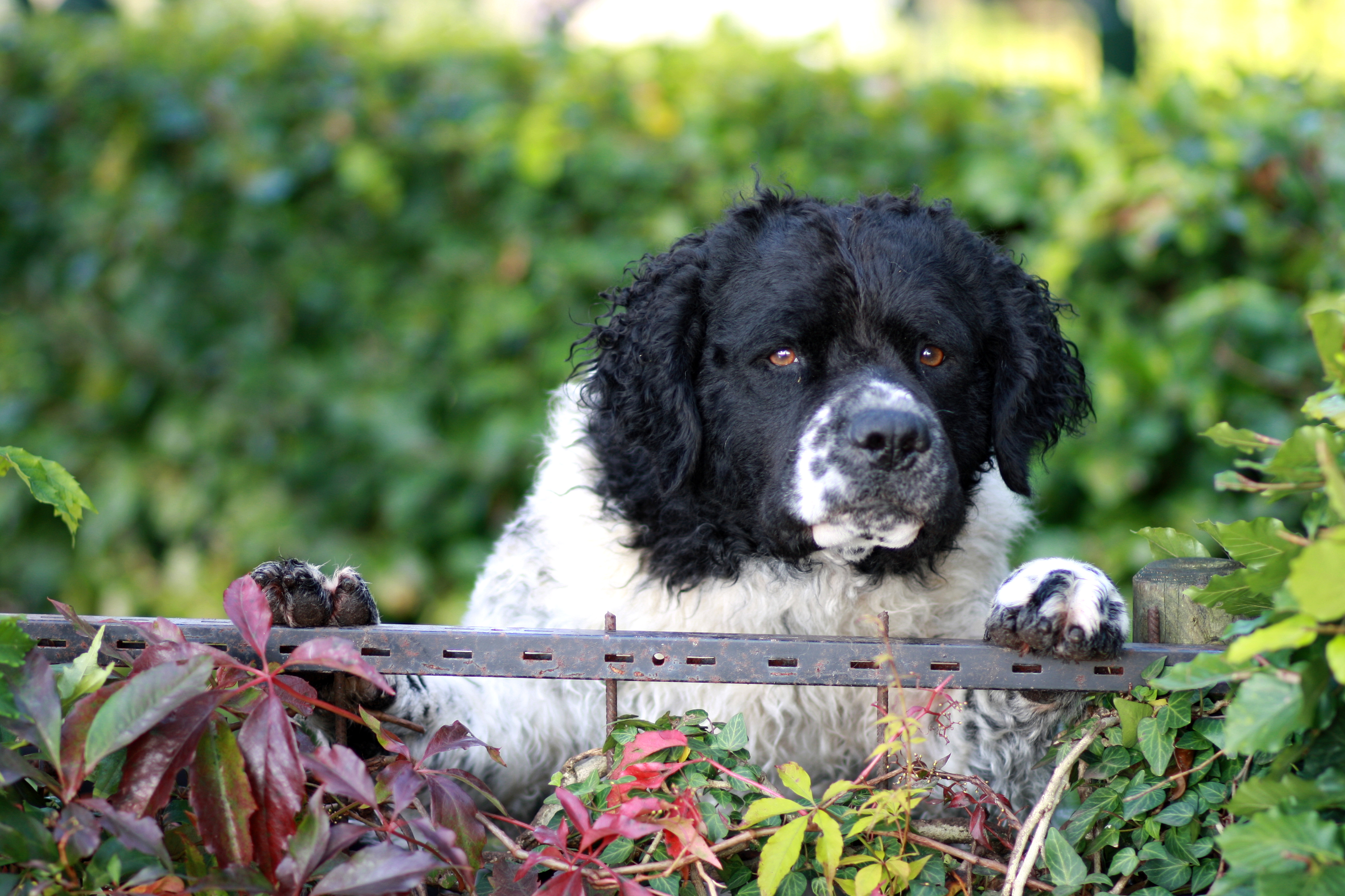 Wetterhoun, Frisian Water Dog, FCI recognized breed (FCI No.221)